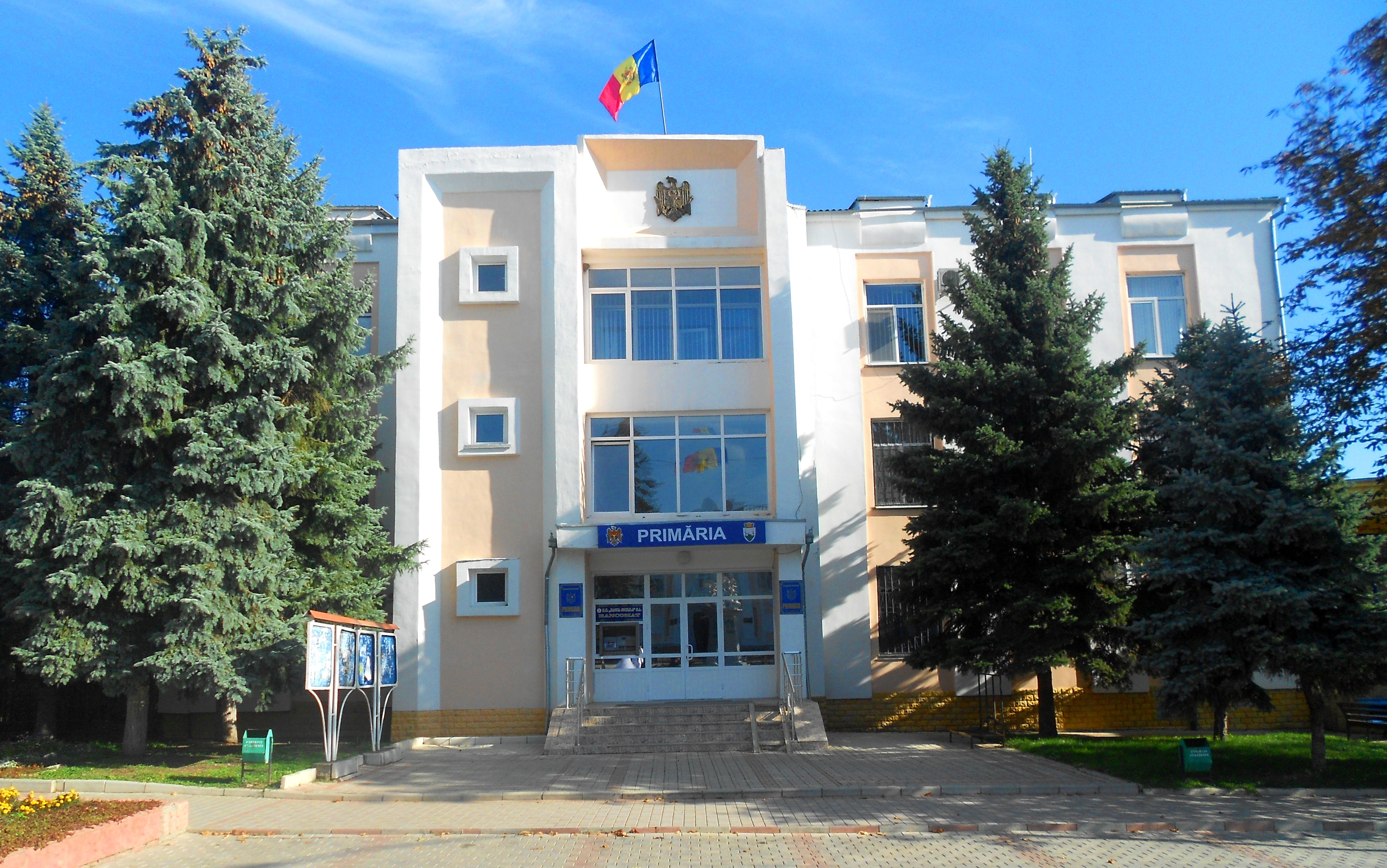 Fălești City Hall